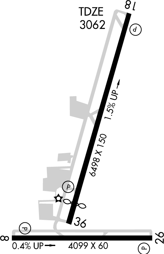 FAA diagram for Apple Valley Airport (IATA: APV, ICAO: KAPV) in Apple Valley, California, United States.